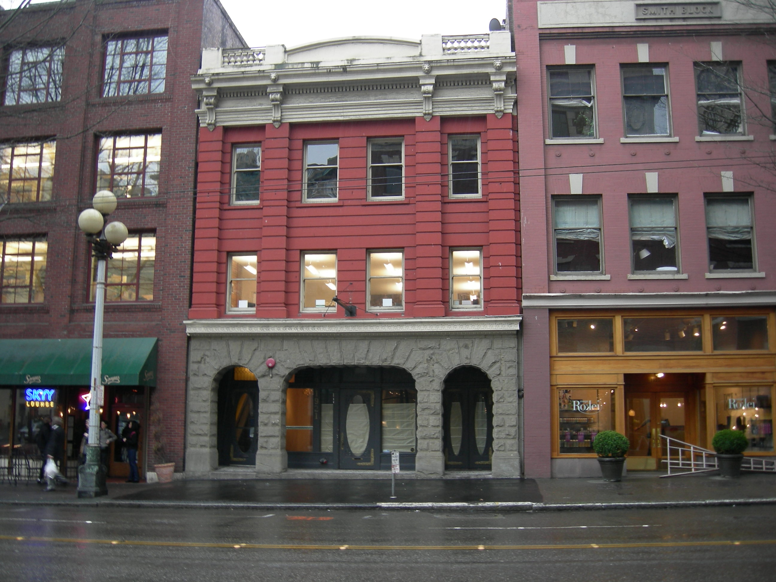 The Butterworth Building, 1921 First Avenue, Seattle, Washington, is on the National Register of Historic Places, ID #71000873. Originally a mortuary (the Halloween Listings in Seattle alternative weekly The Stranger say it was Seattle's first, but I suspect it is merely the oldest surviving). There have been many claims that the building is haunted.